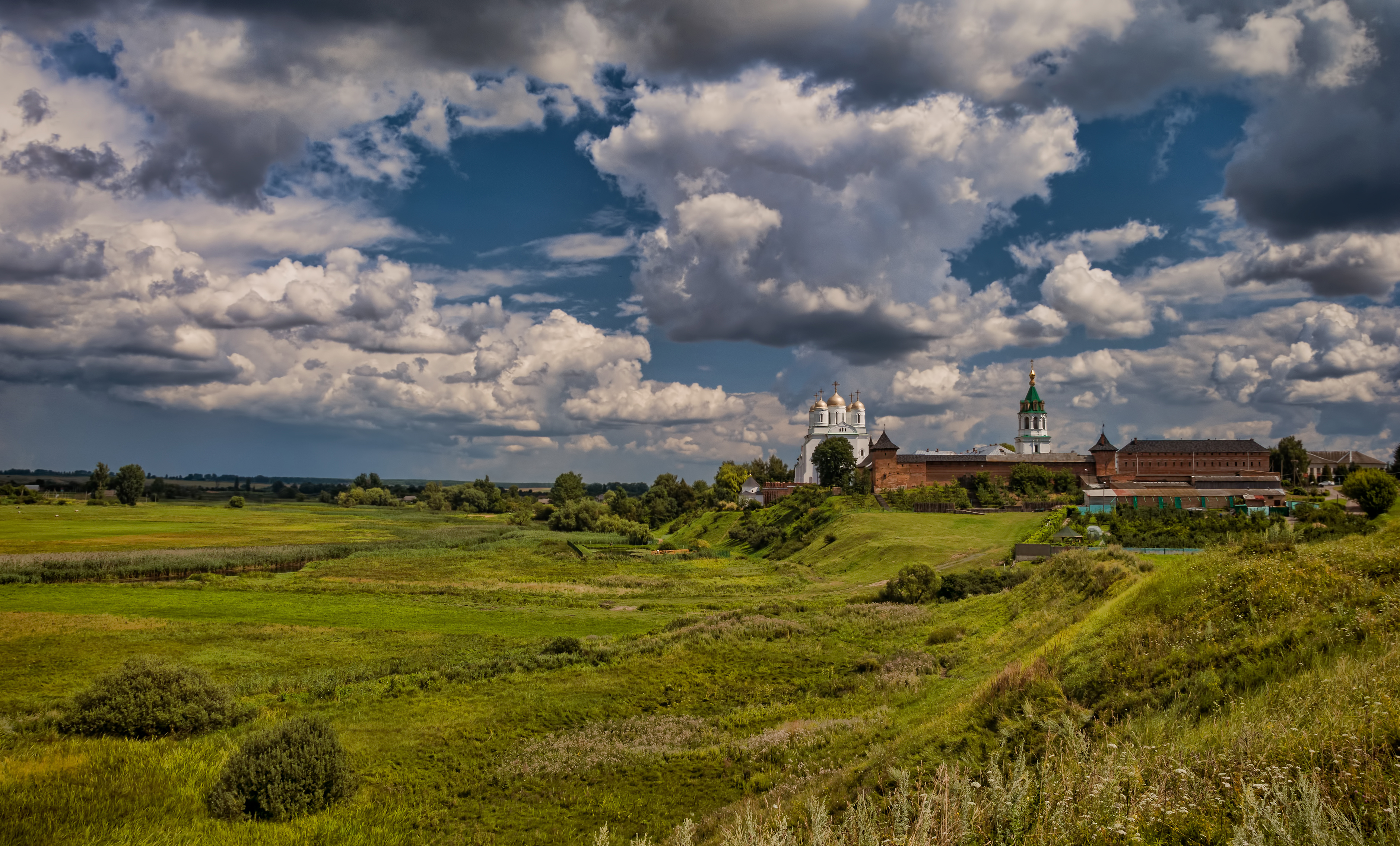 Zymne Monastery, Zymne, Volodymyr-Volynskyi Raion